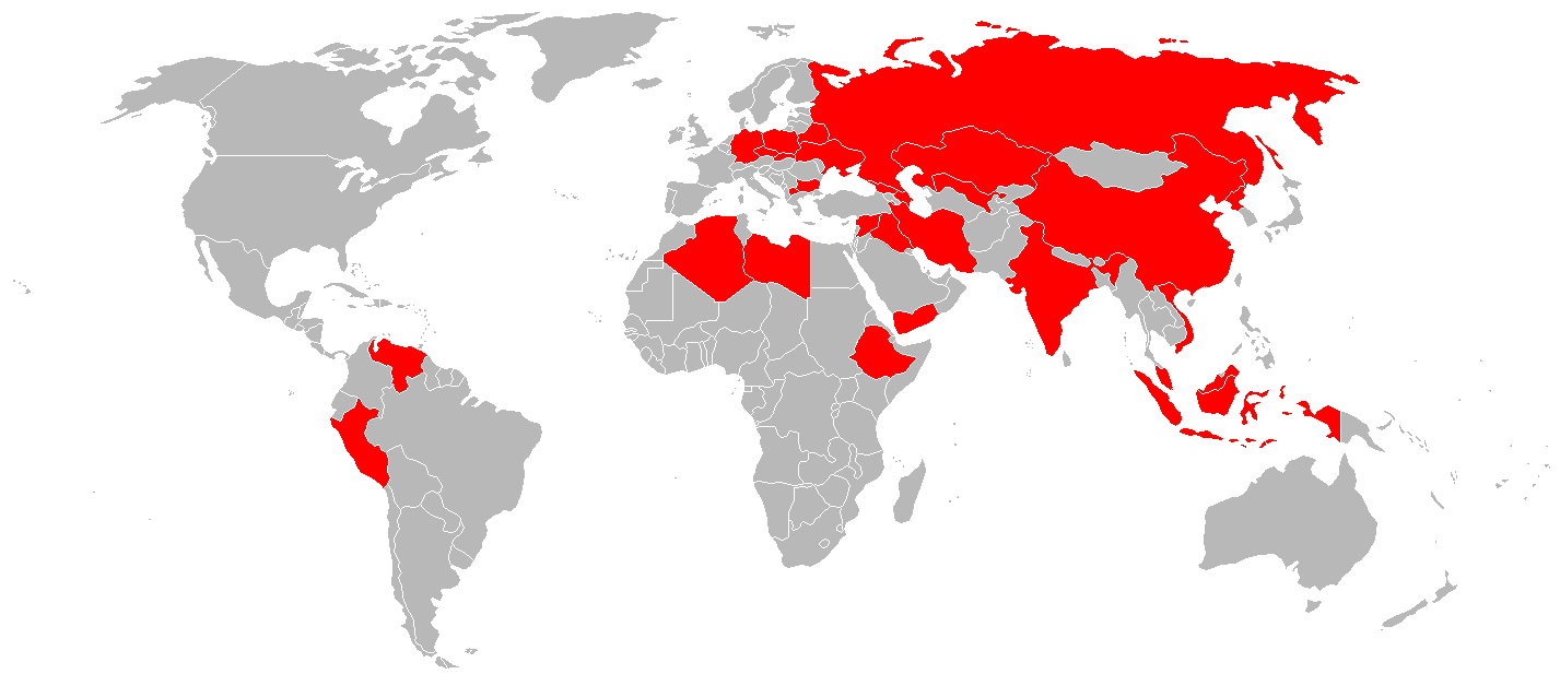 World_operators_of_the_Kh-29_map